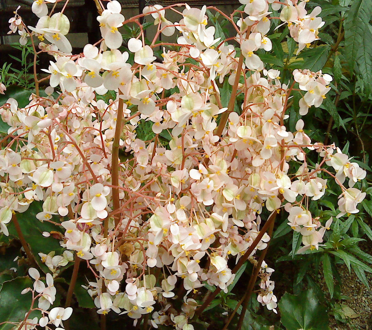 Begonia cardiocarpa